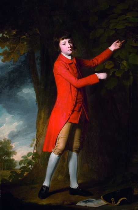 Portrait of Thomas Rackett (1755–1840), English clergyman, as a boy. He is shown declaiming as on stage, supposedly David Garrick's ode to Shakespeare.